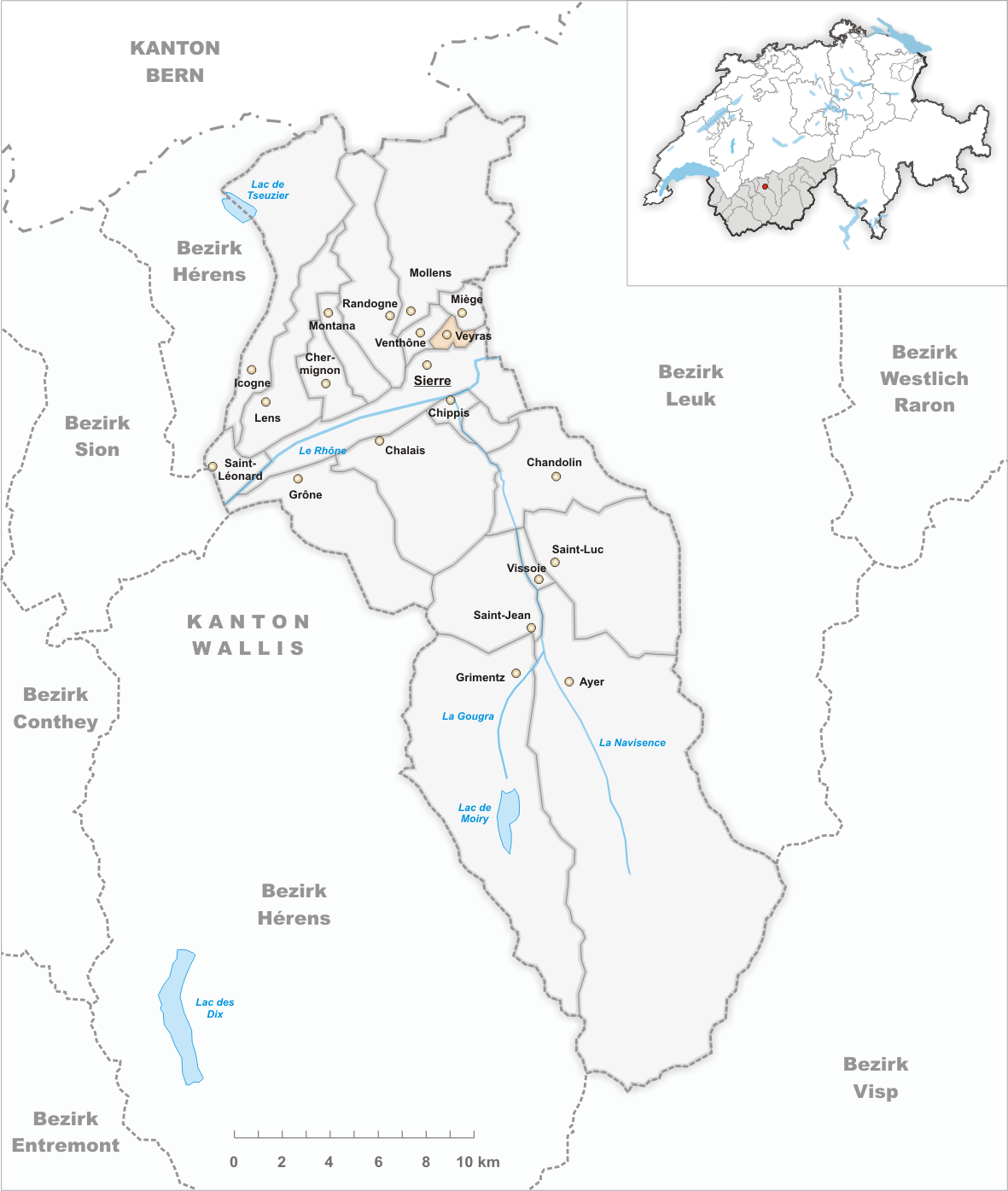 Municipality Veyras